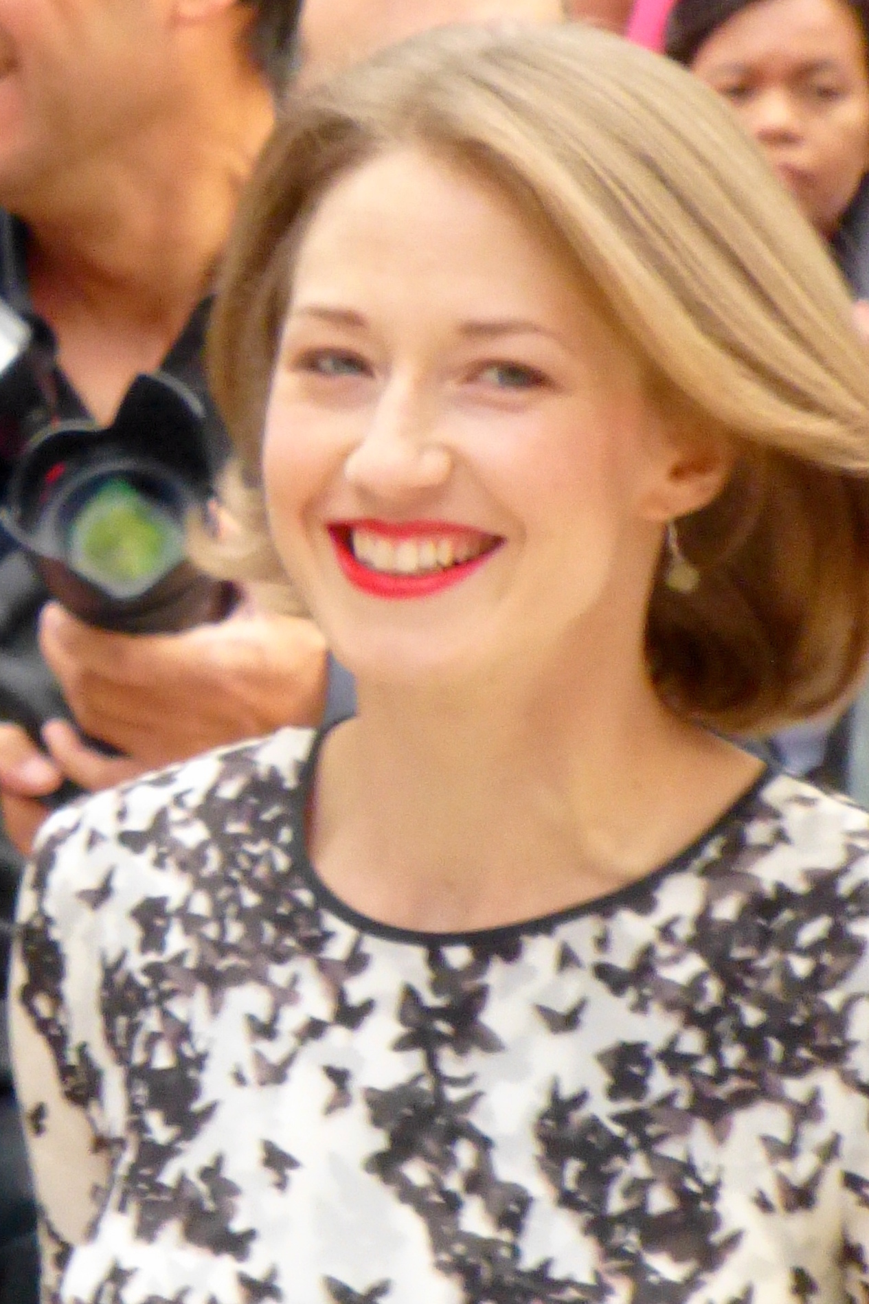 Carrie Coon at the premiere of August: Osage County, Toronto Film Festival 2013